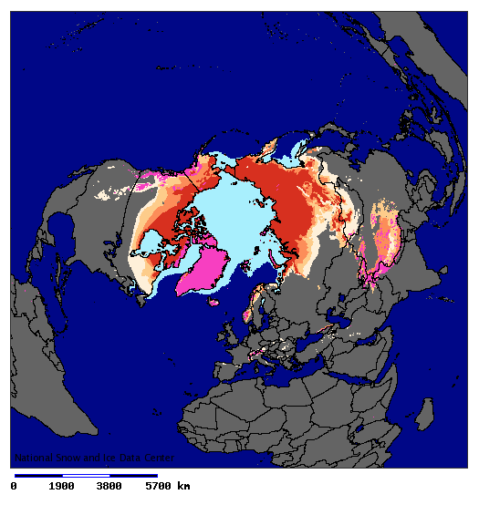 Location of Permafrost in the Northern Hemisphere. Glaciers and the Greenland Ice Sheet are violet, and Arctic Sea Ice is light blue. from NSIDC